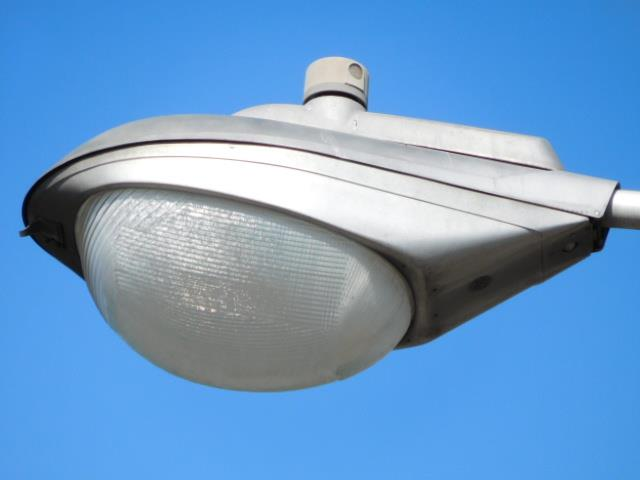 History of street lighting: General Electric M1000 (700–1000 watts) Finned version with photocell on the fin